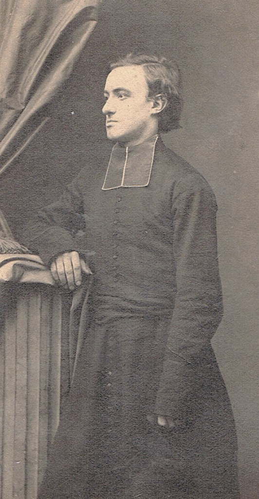 French historian Louis Duchesne (1843-1922), Young.